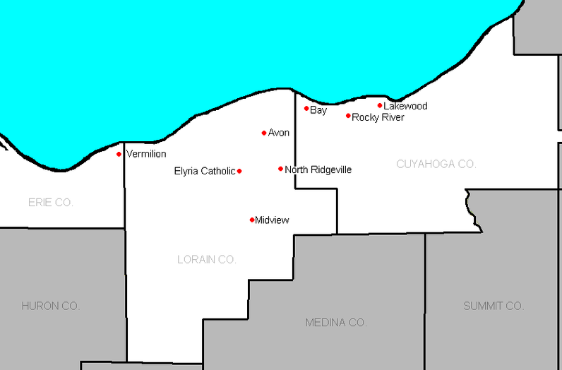 map of league school locations